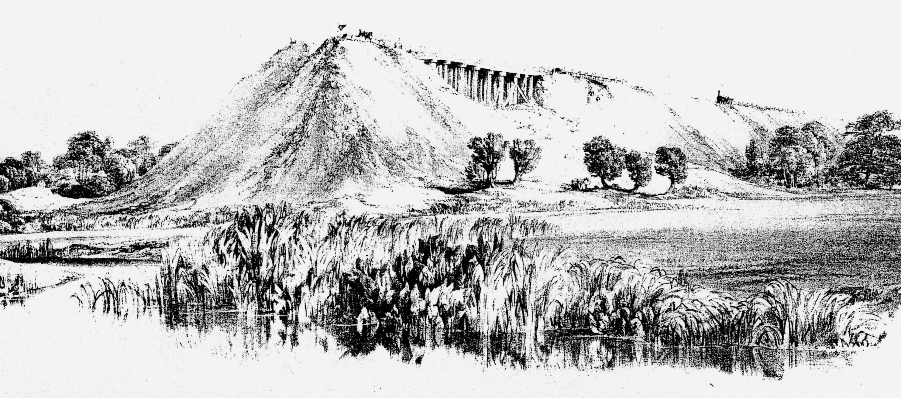 very old Wolverton print